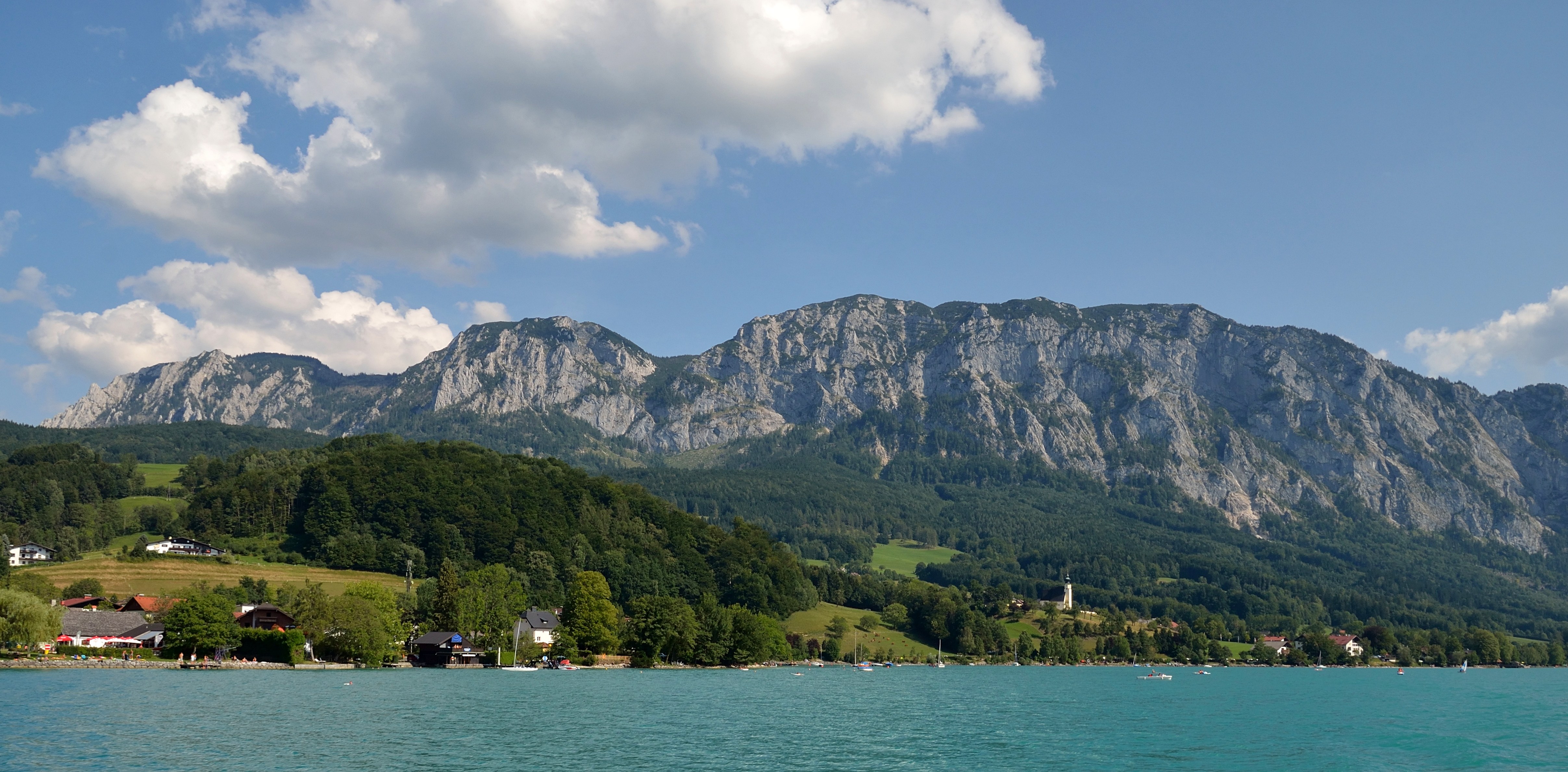 The Höllengebirge, a mountain range of the northern limestone alps in Upper Austria, as seen from a boat from lake Attersee. In the foreground the parish church St. Andrew of Steinbach am Attersee.